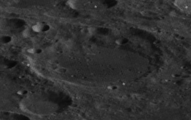 Oblique view of Lebedev crater, on the far side of the moon, facing roughly south.